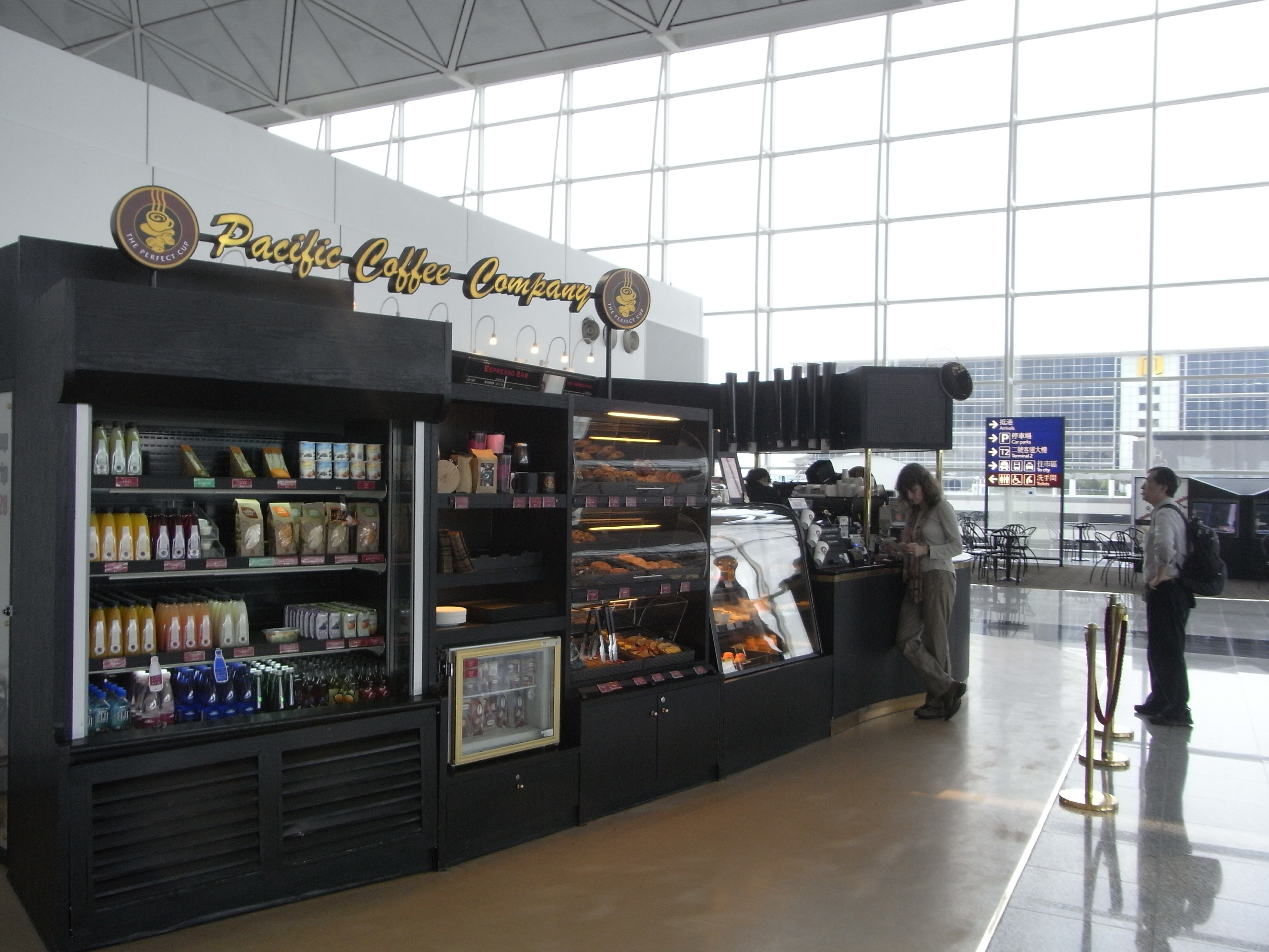 香港